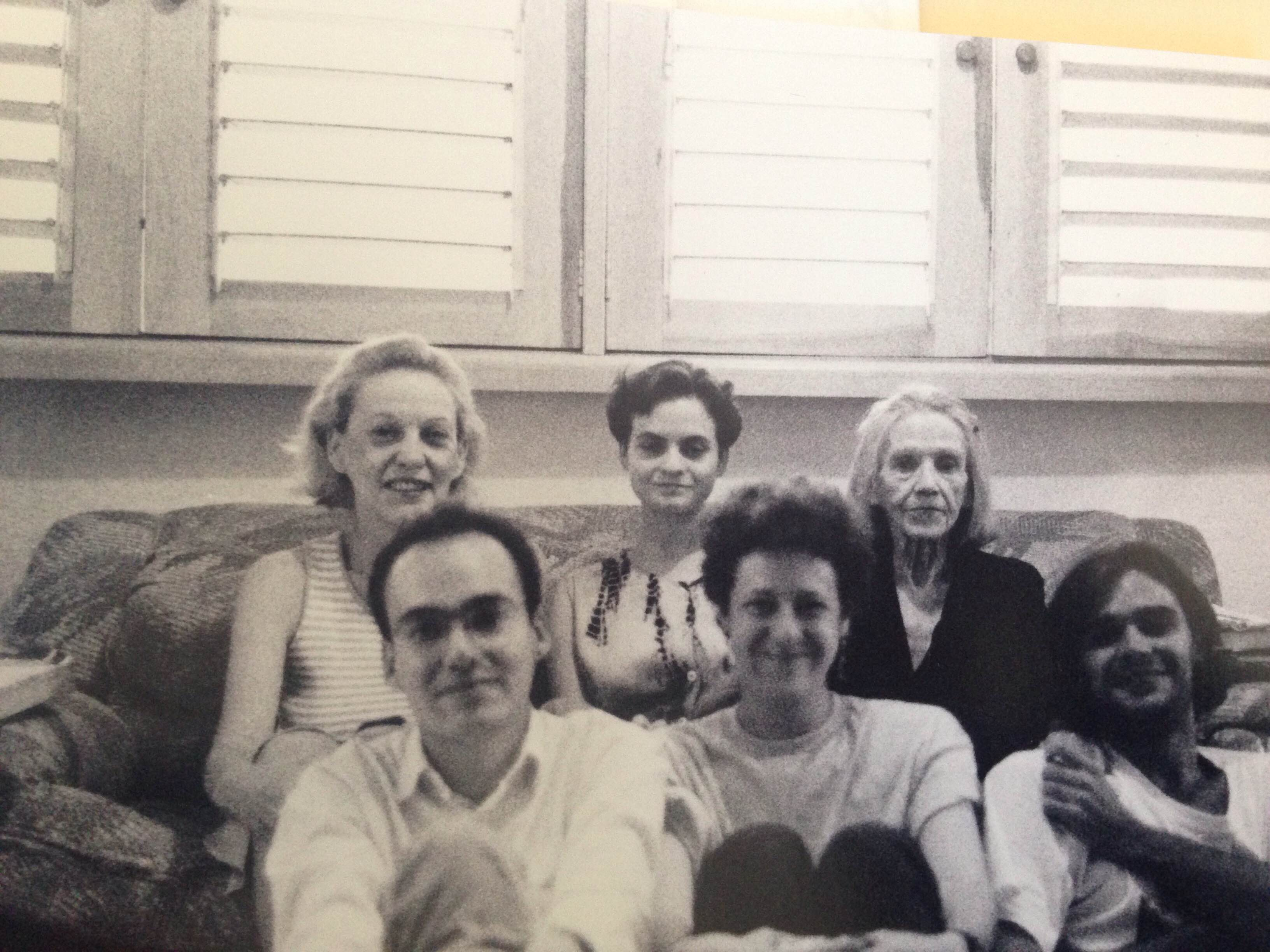 Elena Garro, Helena Paz Garro and José Antonio Cordero (aka Pepe Lamb) with crew members during the shooting of the documentary "The Fourth House, A Portrait of Elena Garro"" by José Antonio Cordero "Pepe Lamb", in Cuernavaca, Mexico.